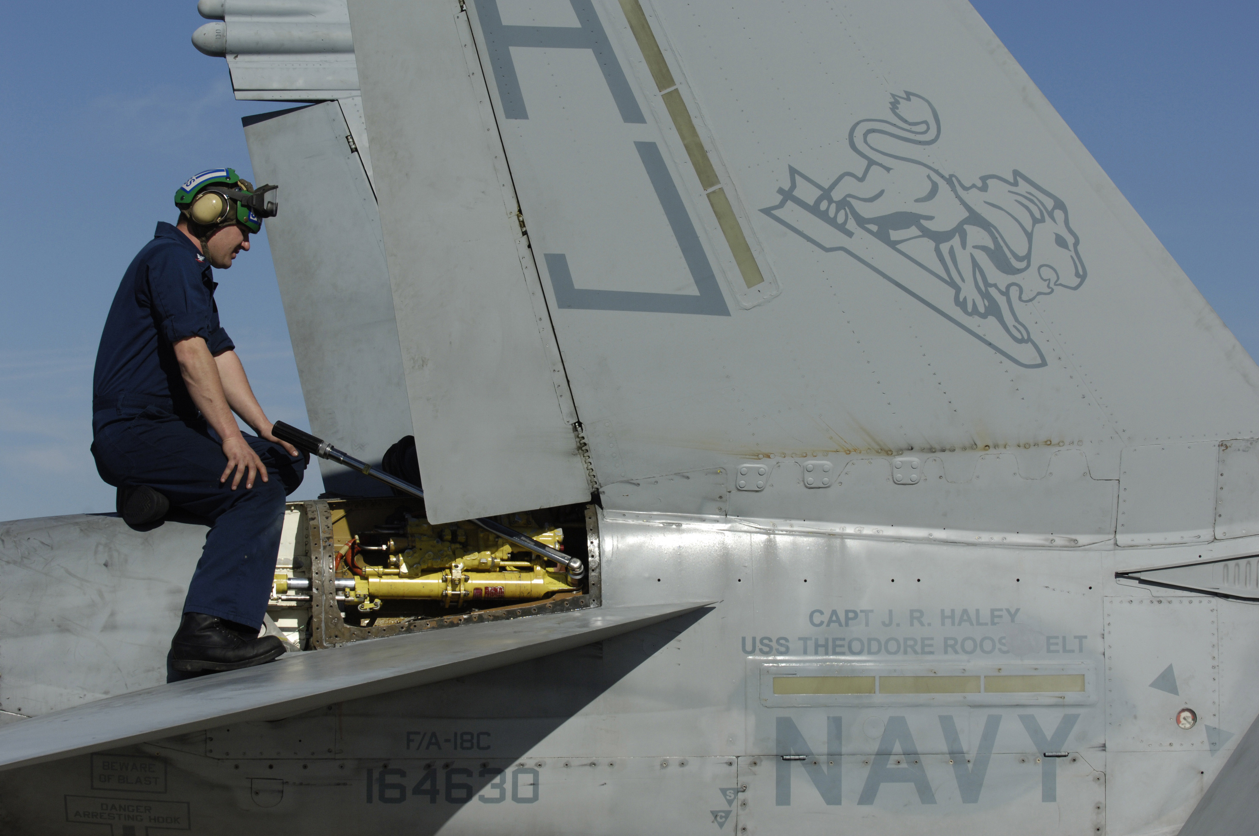 U.S. Navy Petty Officer 3rd Class Vincent Kissinger repairs an actuator assembly on an F/A-18 Hornet aircraft at Nellis Air Force Base, Nev., on March 15, 2007. Pilots and crews from the NavyÃ­s Strike Fighter Squadron 15 are training at Nellis with Air Force counterparts to prepare for future joint deployments. The squadron is based at Oceana Naval Air Station in Virginia Beach, Va.